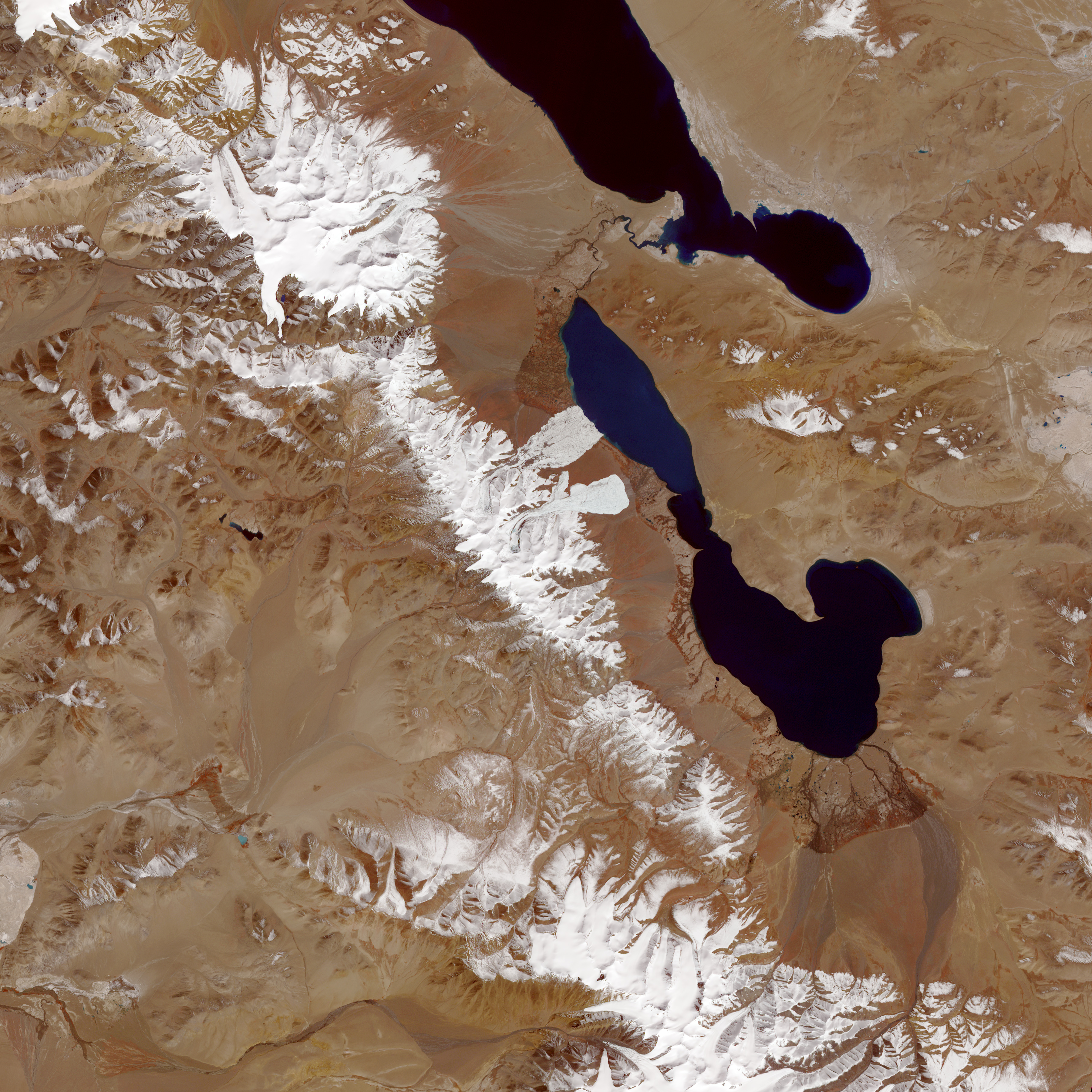 an image from the Advanced Spaceborne Thermal Emission and Reflection Radiometer (ASTER) on NASA’s Terra satellite shows both avalanches in false color. This image was acquired on October 4, 2016.